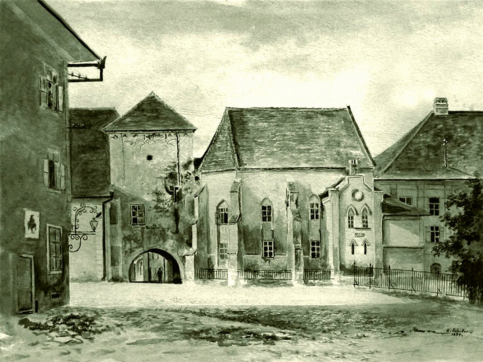 Saint Ladislaus Chapel 1894. Demolished 1898.